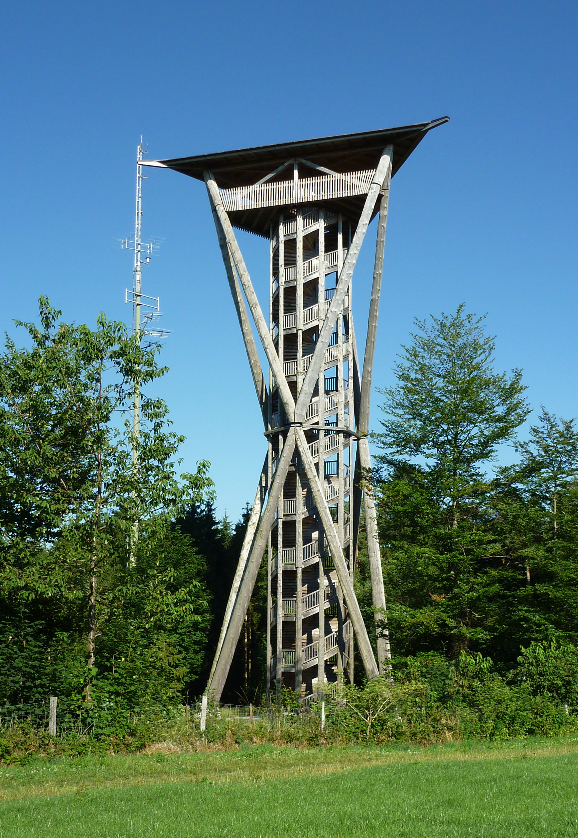 Wiler Turm in Wil SG, Switzerland